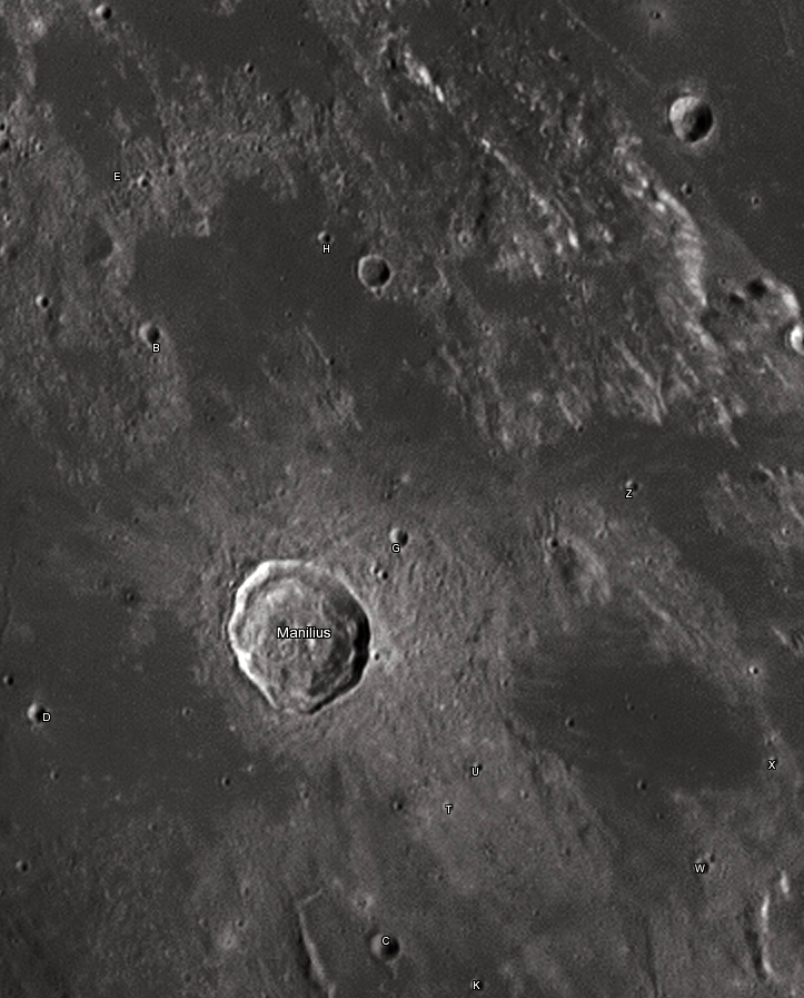 Manilius lunar crater as seen from Earth with satellite craters labeled